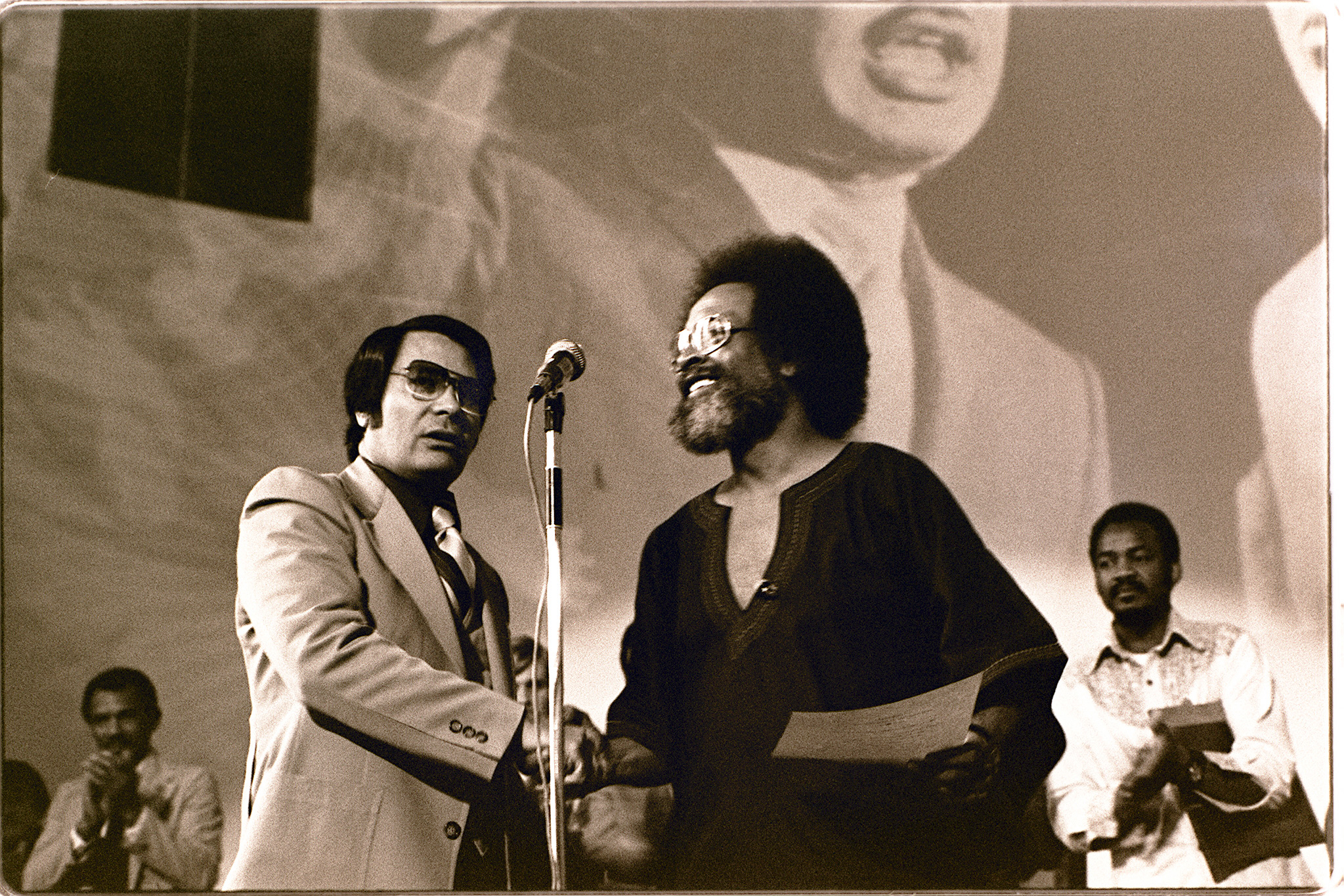 January 1977 photo by Nancy Wong.Reverend Jim Jones (left) is given the Martin Luther King, Jr. Humanitarian award at Glide Memorial Church, 330 Ellis Street by Reverend Cecil Williams (right) in San Francisco, California.